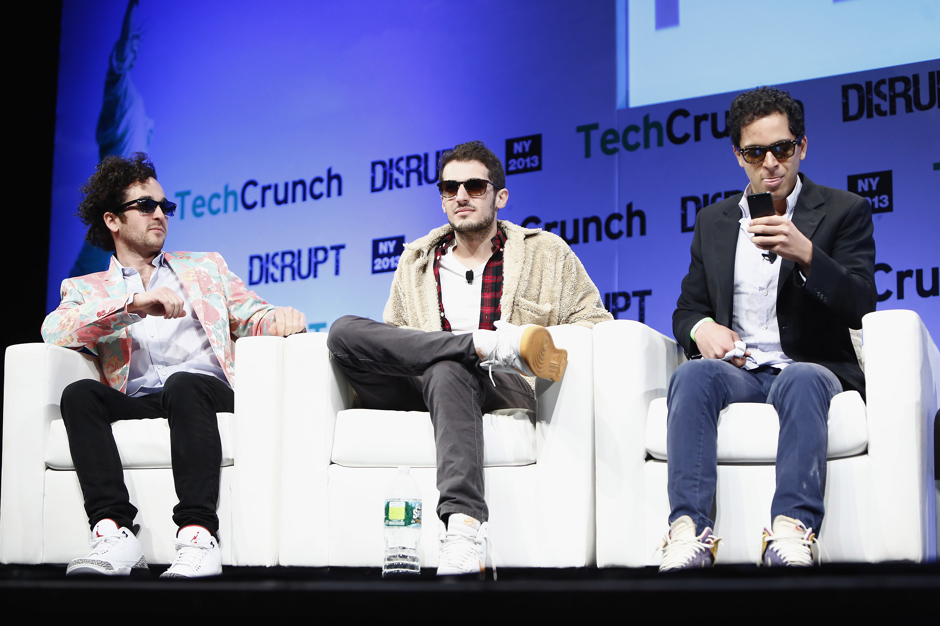 NEW YORK, NY - MAY 01: (L-R): Tom Lehman, Ilan Zechory and Mahbod Moghadam of Rap Genius speak onstage at TechCrunch Disrupt NY 2013 at The Manhattan Center on May 1, 2013 in New York City. (Photo by Brian Ach/Getty Images for TechCrunch)